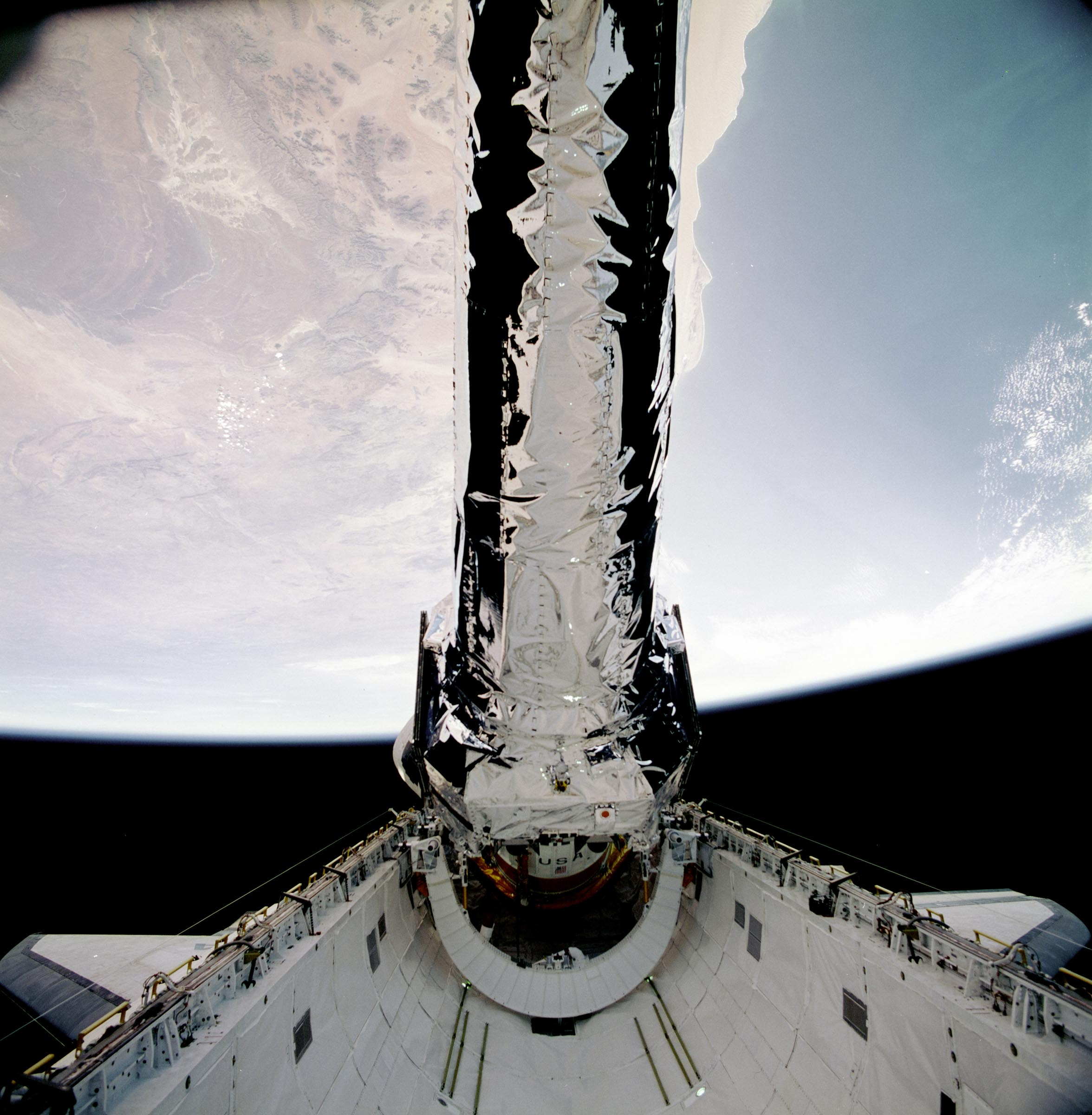 This 70mm frame shows the Chandra X-ray Observatory, backdropped against a desert area in Namibia, just before its release from Columbia's payload bay. This scene is one of a series of still photos recorded by the crew before and during the deployment of the 50,162 pound observatory.